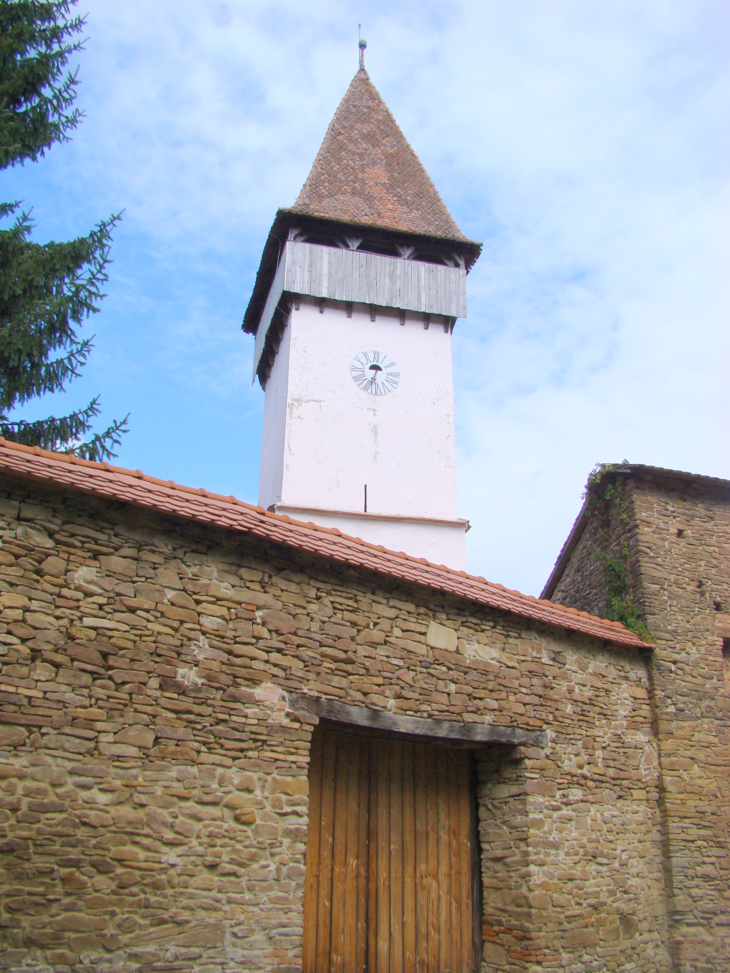 Fortified church in Meșendorf, Brașov County, Romania